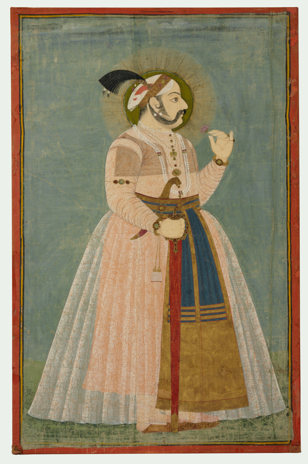 Portrait of Amar Singh II, Ruler of Mewar, City of Udaipur, 1700-1750